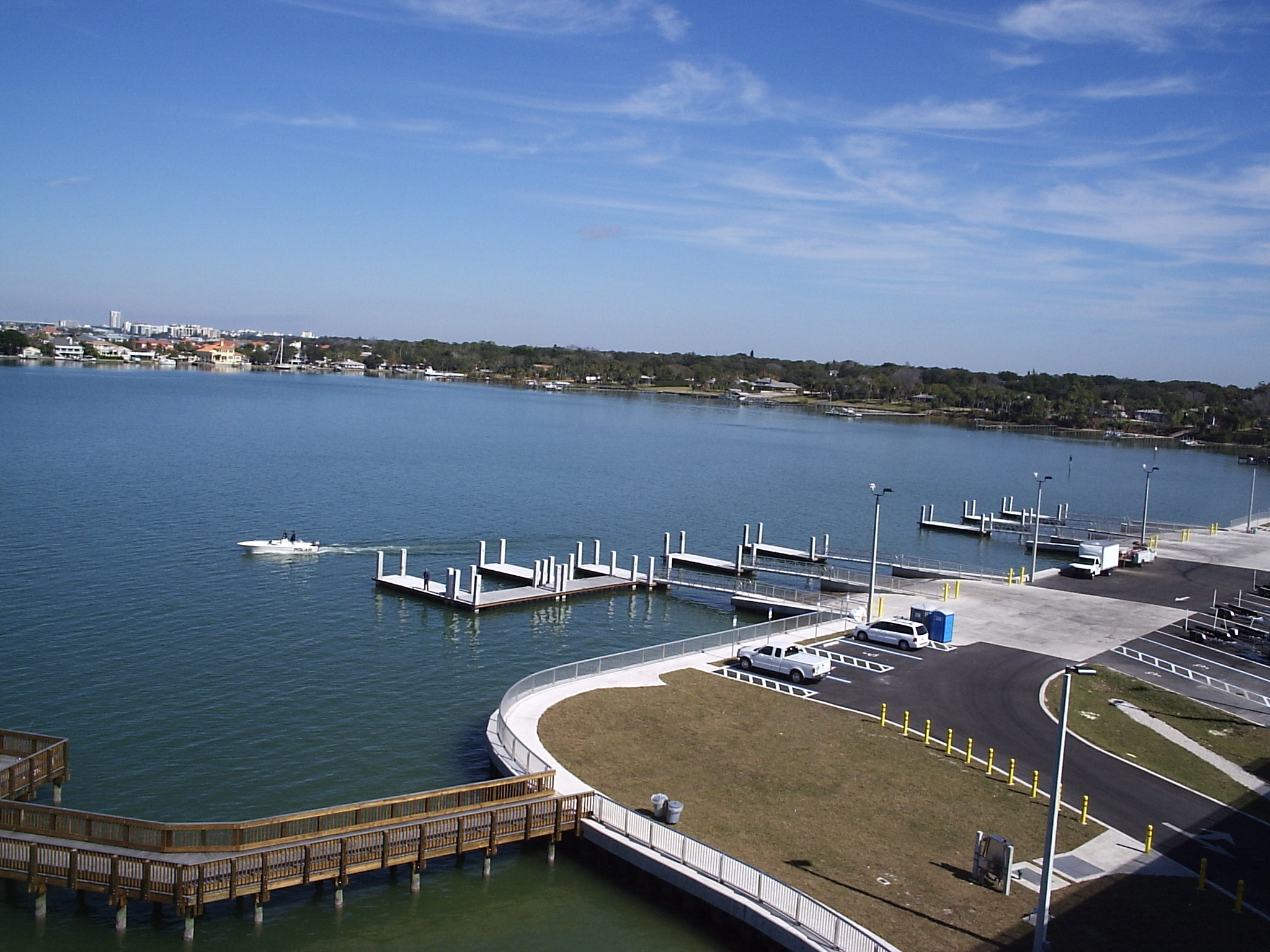 View of Belleair Causeway Boatramp Park, a Pinellas County, Florida park, from new bridge, SR 686, looking east.